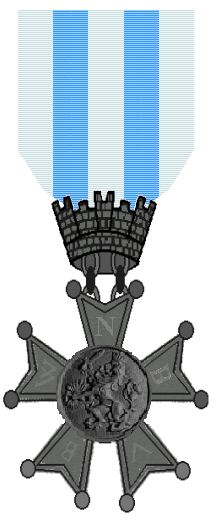 Cross of Merit of the Dutch Association of Voluntary Citizens Watch